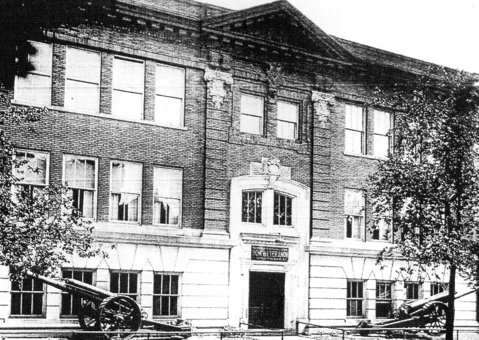 Polish Women's Alliance building (later veteran's house) 1309 North Ashland Ave. in Chicago